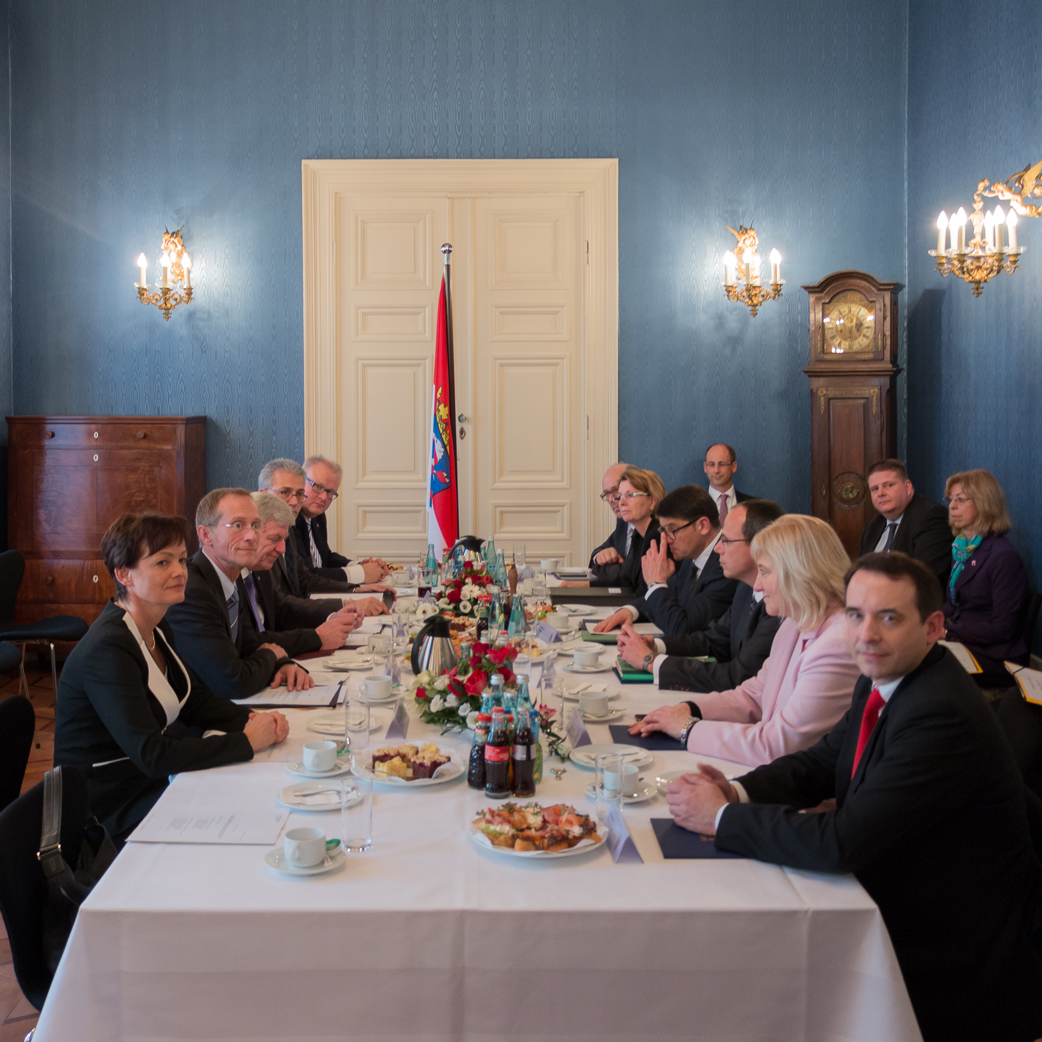 The first meeting of the Cabinet Bouffier II of the black-green coalistion in Hesse